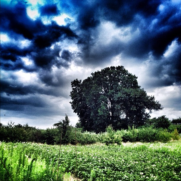 "Storm is coming." Example of iPhoneography. Author - Alexander Kostenko